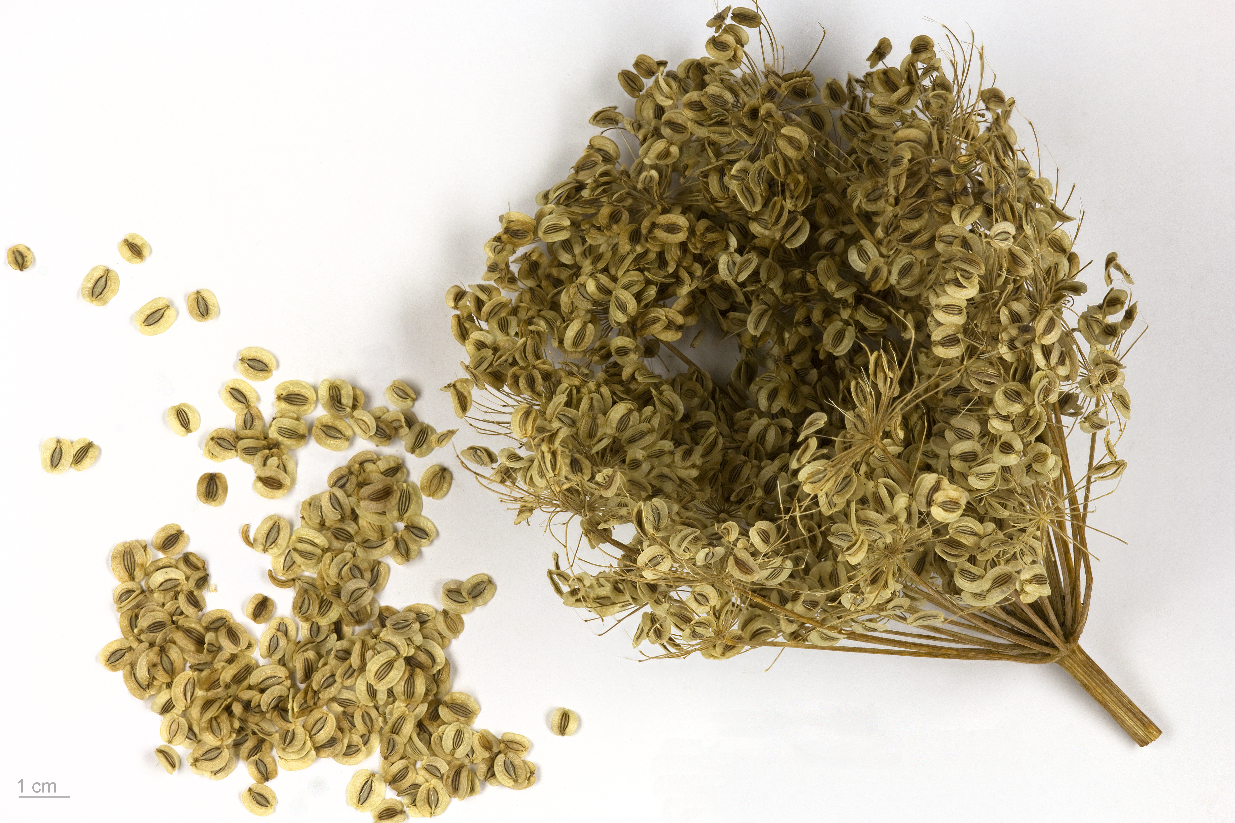 Masterwort , fruits and seeds